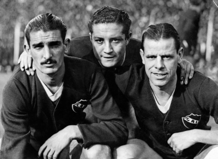 Forwards of C.A. Independiente of Argentina: from left, Vicente de la Mata, Arsenio Erico and Antonio Sastre, who helped the team to win two league titles, 3 national cups and 2 international cups.